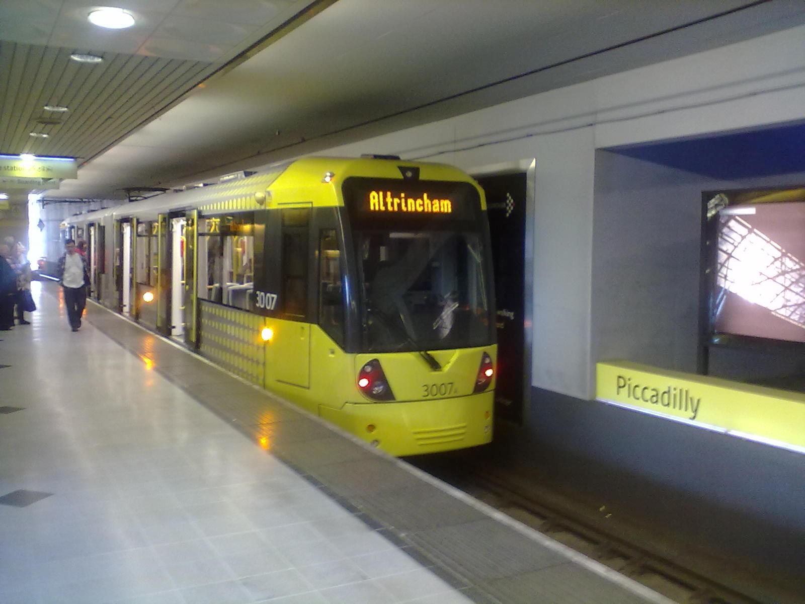 M5000 Metrolink unit number 3007 at Manchester Piccadilly